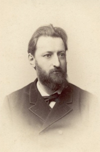 Portrait of Vitus Jacobus Bruinsma (1850–1916), Dutch physicist and botanist and co-founder of the Vereniging tegen de Kwakzalverij in 1881.